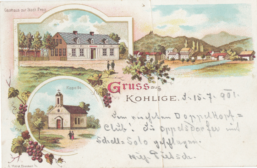 Uhelná